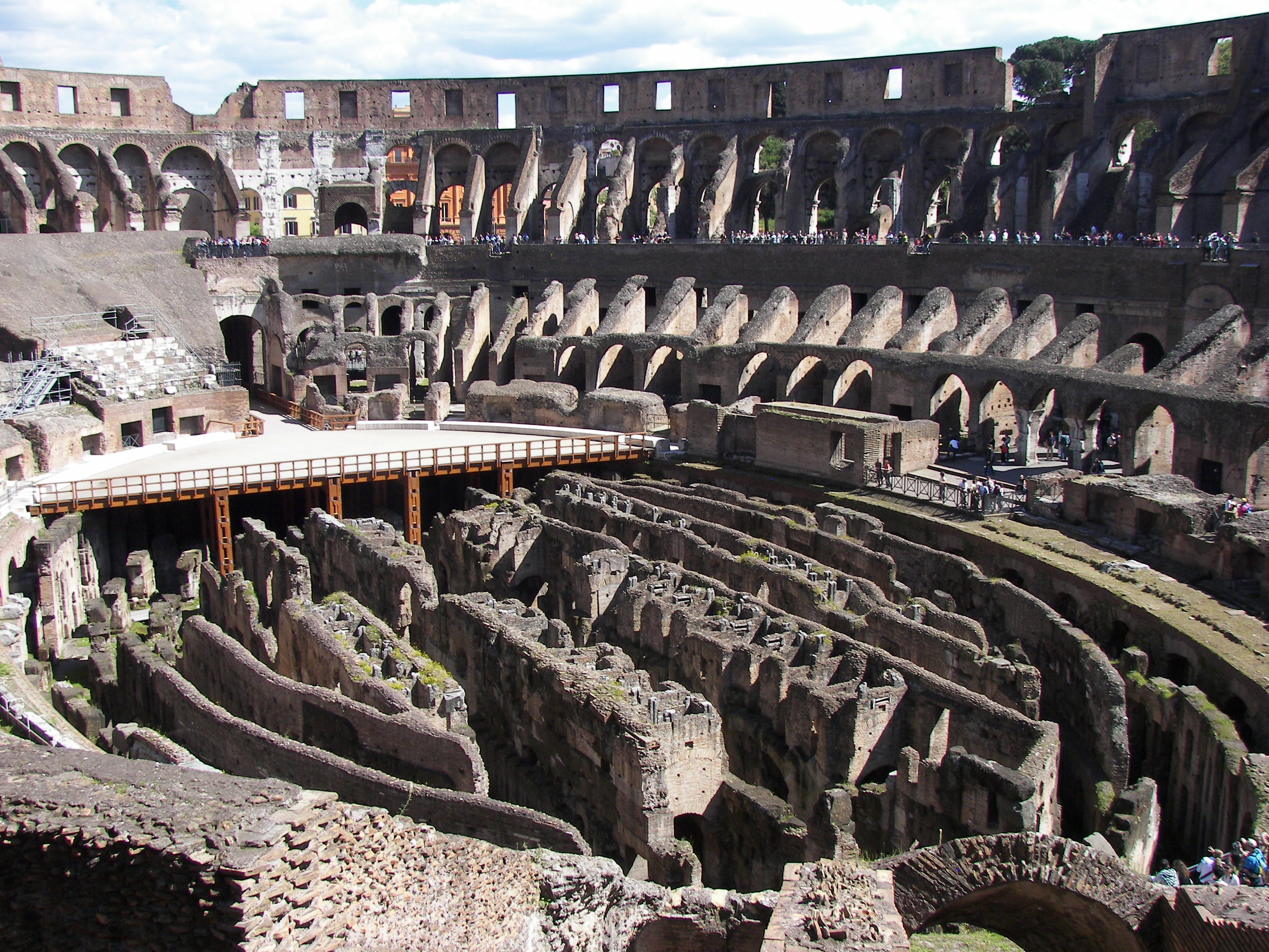 Interior of the Colosseum in Rome.